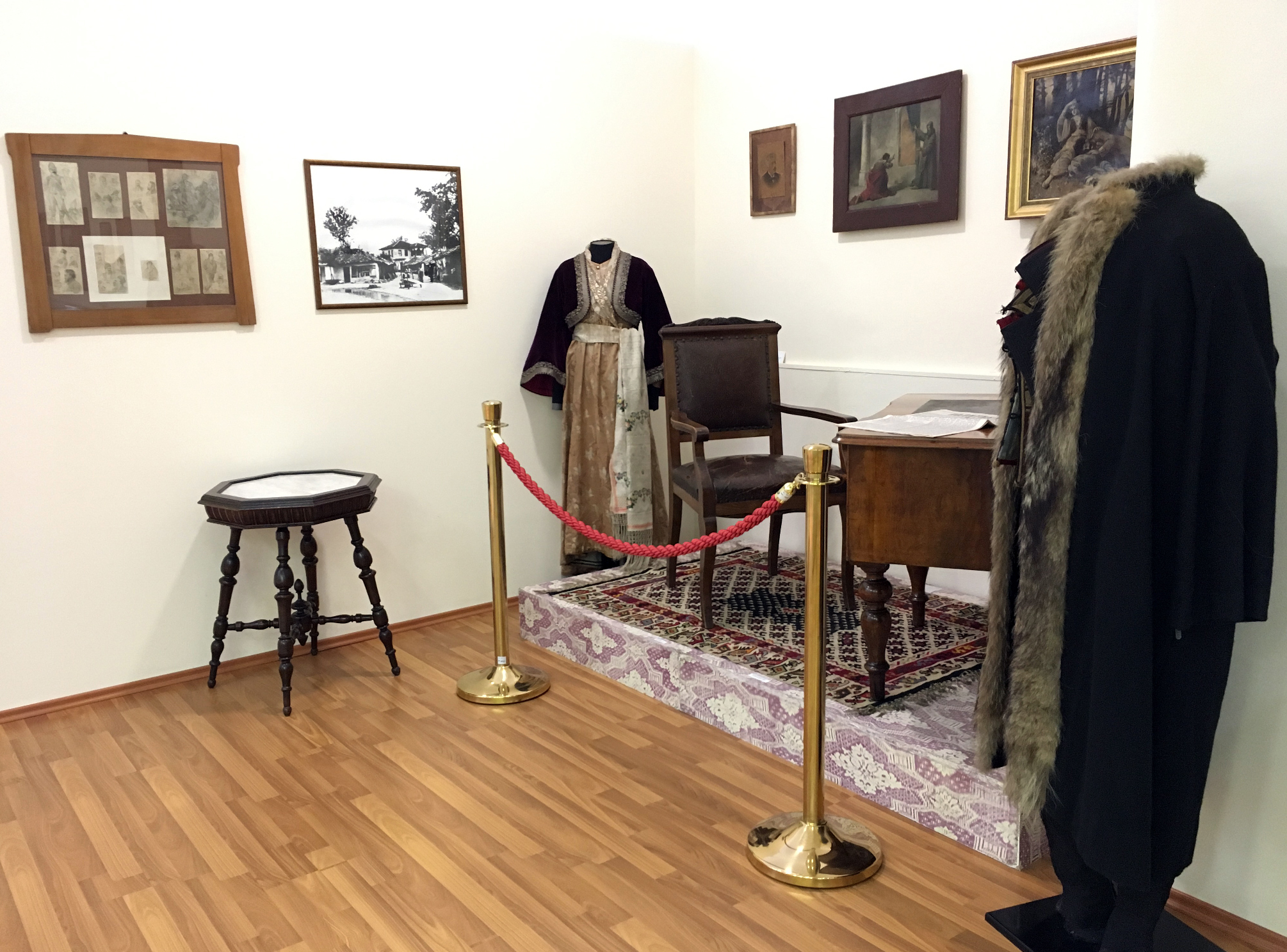 Furniture and personal belongings of Stevan Sremac and his wife, the city museum in Niš Српски (ћирилица): Намештај, одећа и личне ствари Стевана Сремца и његове супруге. Легат Стевана Сремца и Бранка Миљковића, део градског музеја у Нишу.